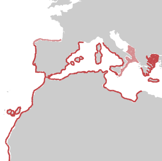 The red line alongside the coast represents the possible distribution area of the phaeton dragonet or Synchiropus phaeton